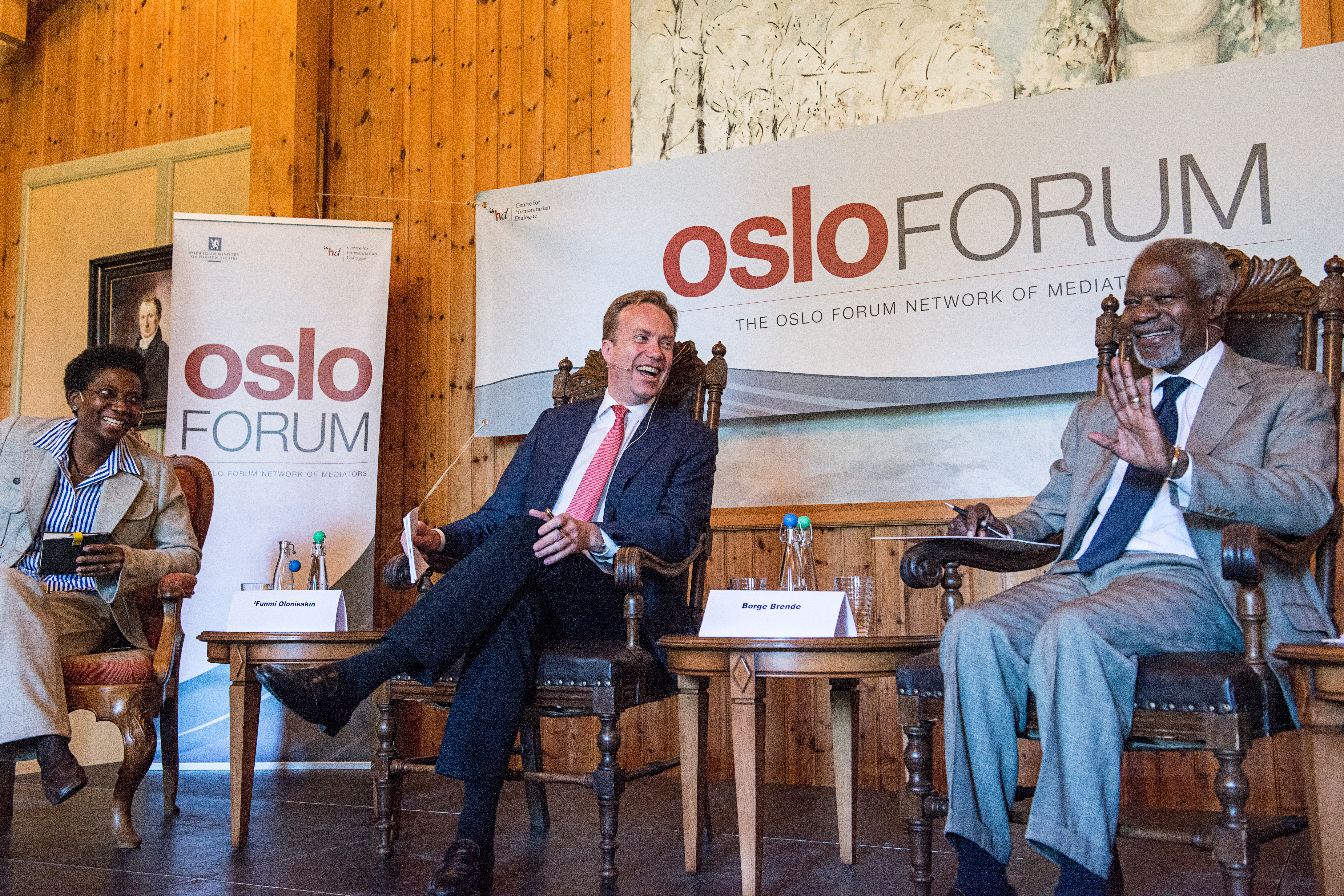 Dr Funmi Olonisakin, H.E. Mr Børge Brende and H.E. Mr Kofi Annan at the Oslo Forum in 2014